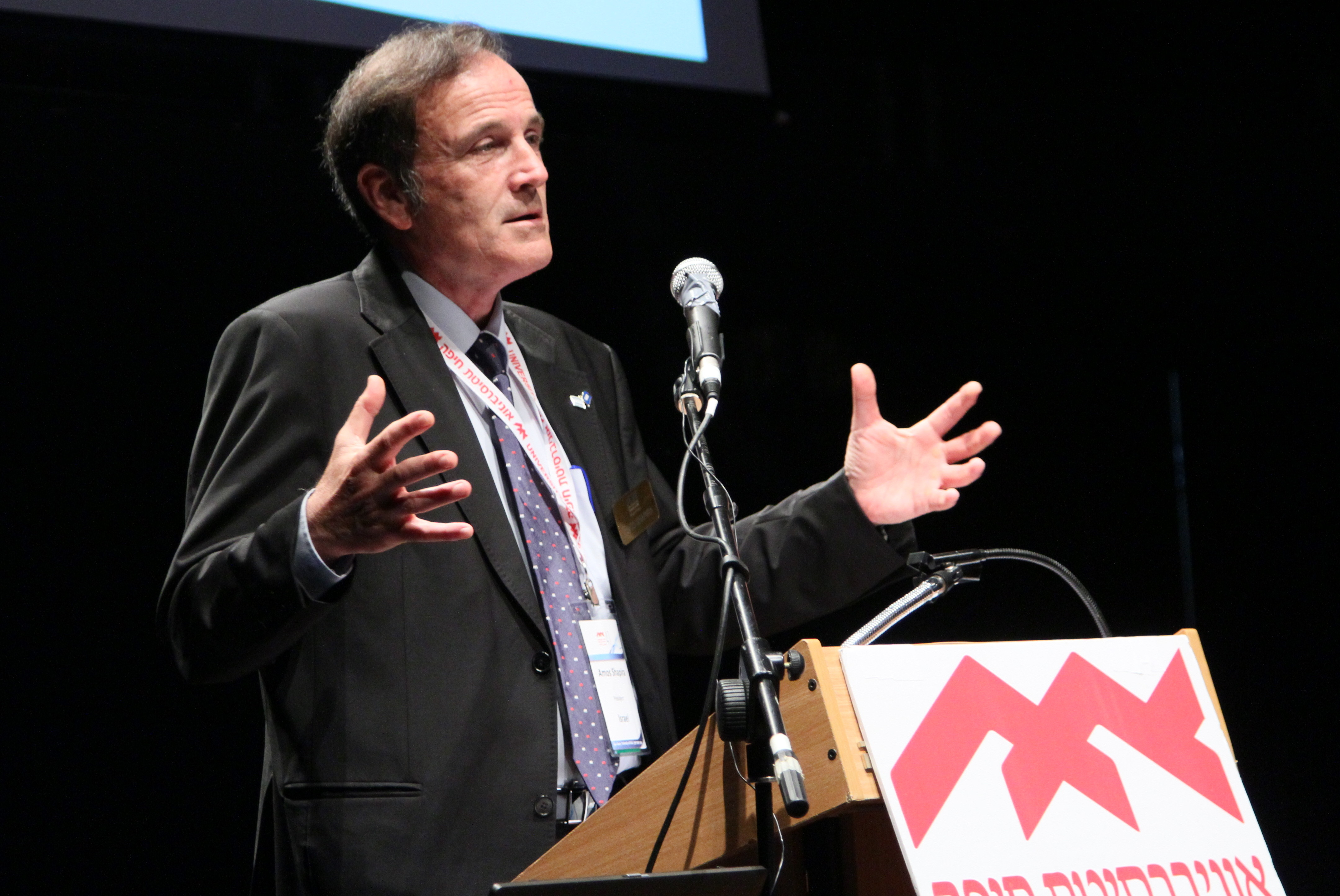 Mr. Amos Shapira, President of the University of Haifa, at the university's 41st Board of Governors Meeting, June 2013